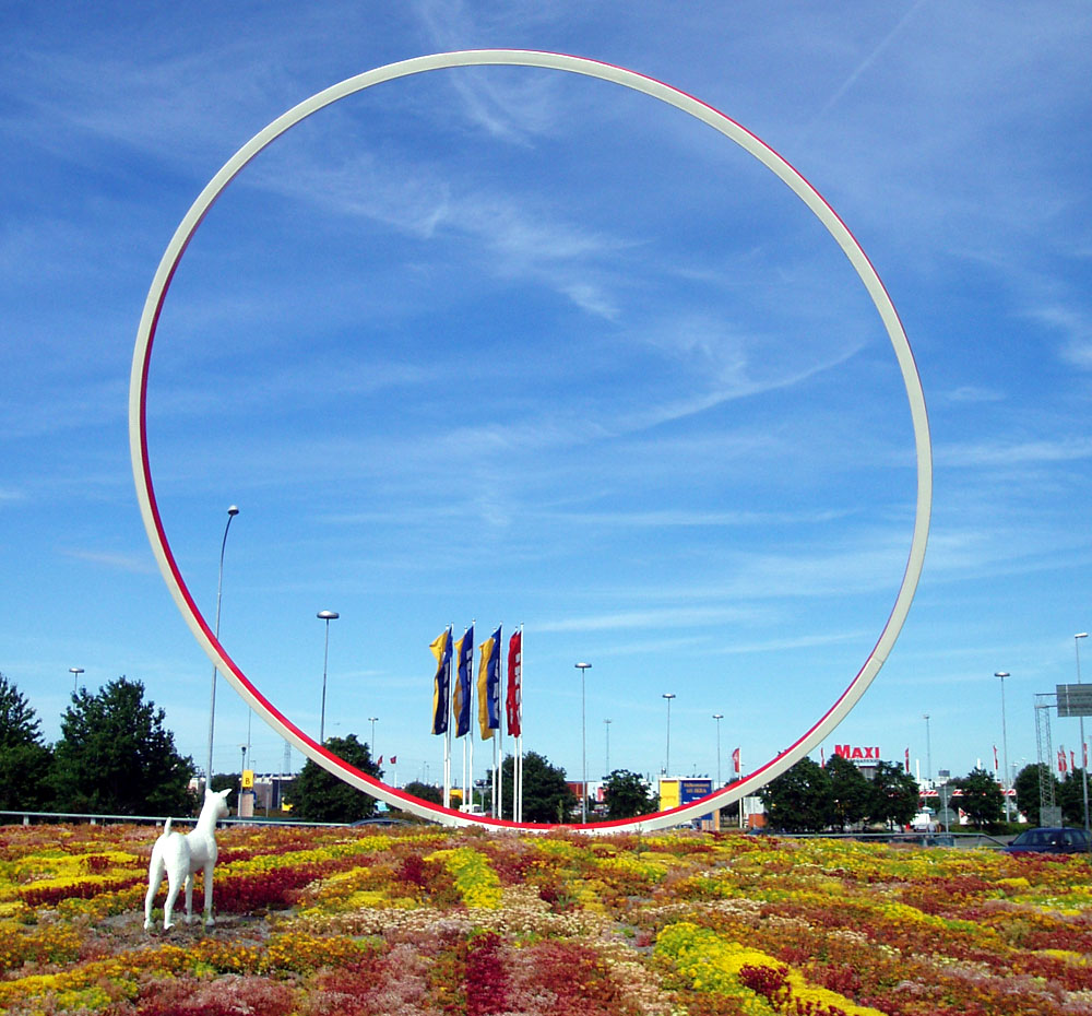 Roundabout dog. The original one by Opitz. Permanent installation with freedom of panorama in a roundabout in my home town.